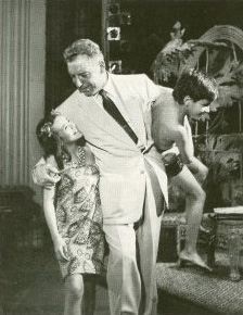 Ezio Pinza as Emile de Becque in the 1949 original production of South Pacific.